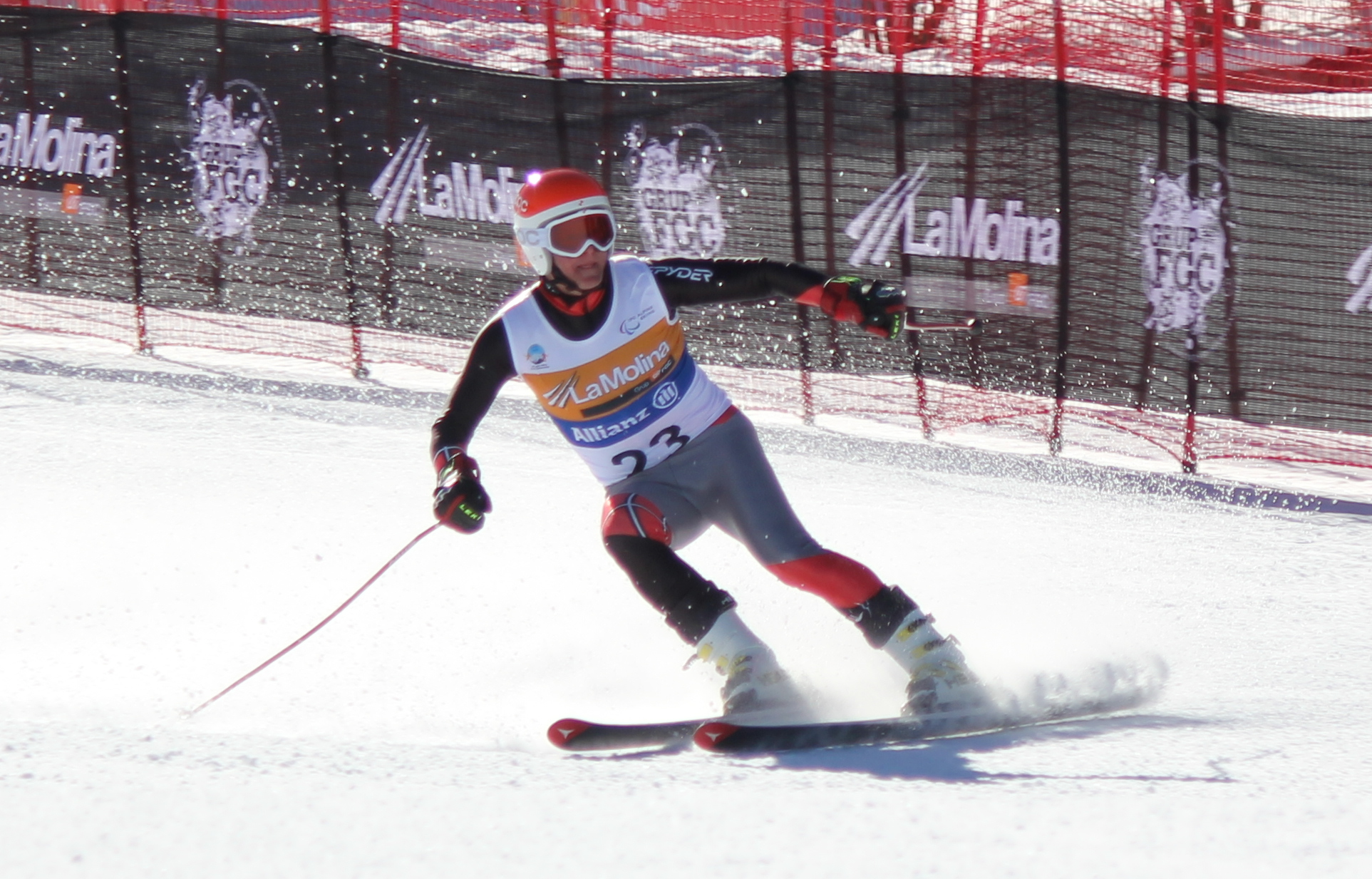 La Molina, Spain on the downhill competition day at the 2013 IPC Alpine World Championships. Men's visually impaired skier Mark Bathum and guide Sean Ramsden of the United States.